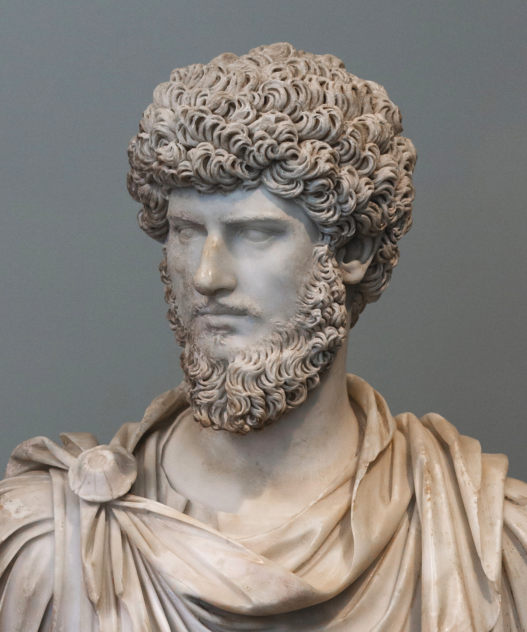 Marble portrait of the co-emperor Lucius Verus, Roman Antonine period